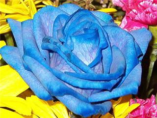 close up of a blue rose